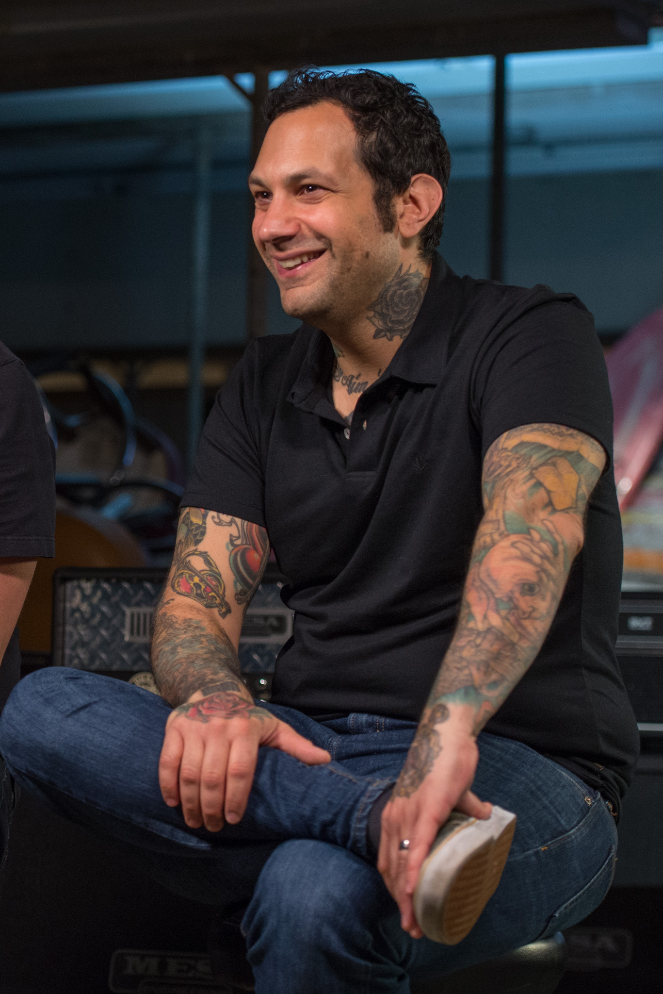 Joe Principe giving an interview at The Republik in Honolulu, Hawaii. This photograph was taken by Peter Chiapperino, a concert photographer that goes by Photocyclone in Lexington, Kentucky.